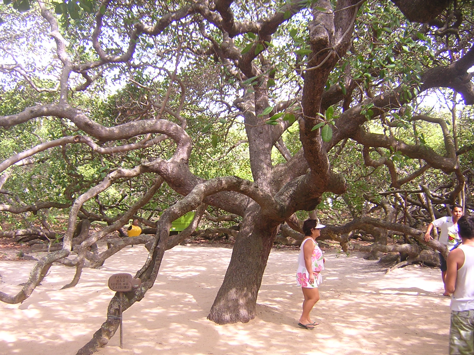 Biggest Cashew-tree in the world, located in Parnamirim, Rio Grande do Norte (Brazil)